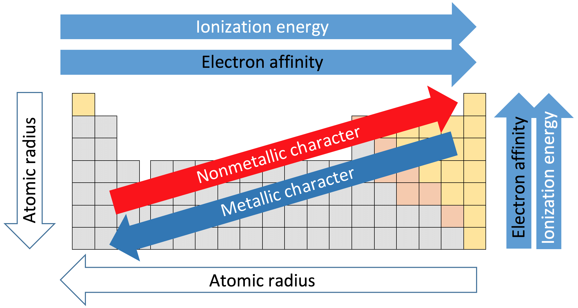 Various periodic trends